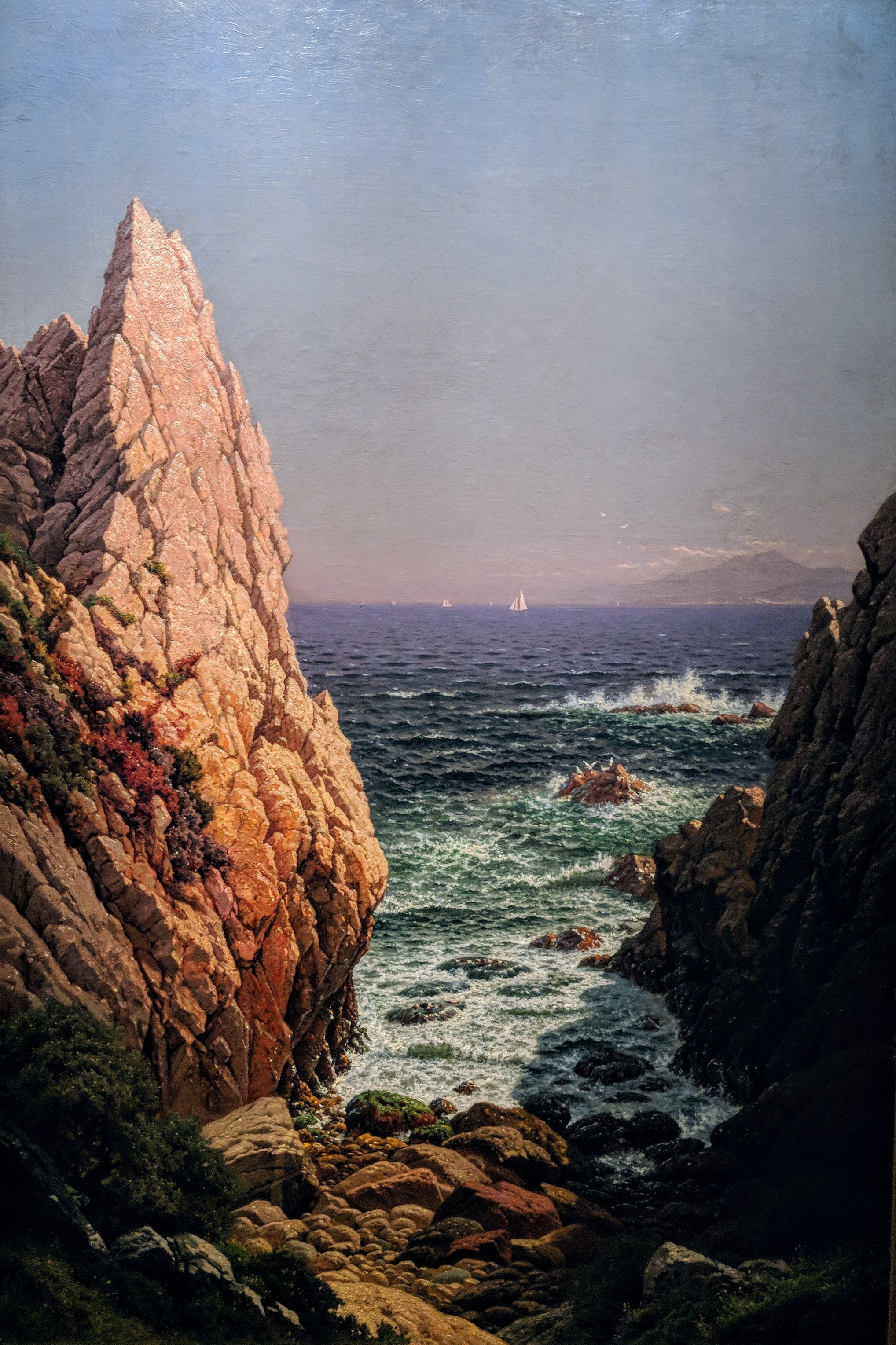 An 1879 oil painting Glimpse of Monterey Bay by Raymond Dabb Yelland (1848-1900). Owned by the Brigham Young University Art Museum. Photo by Jim Heaphy.